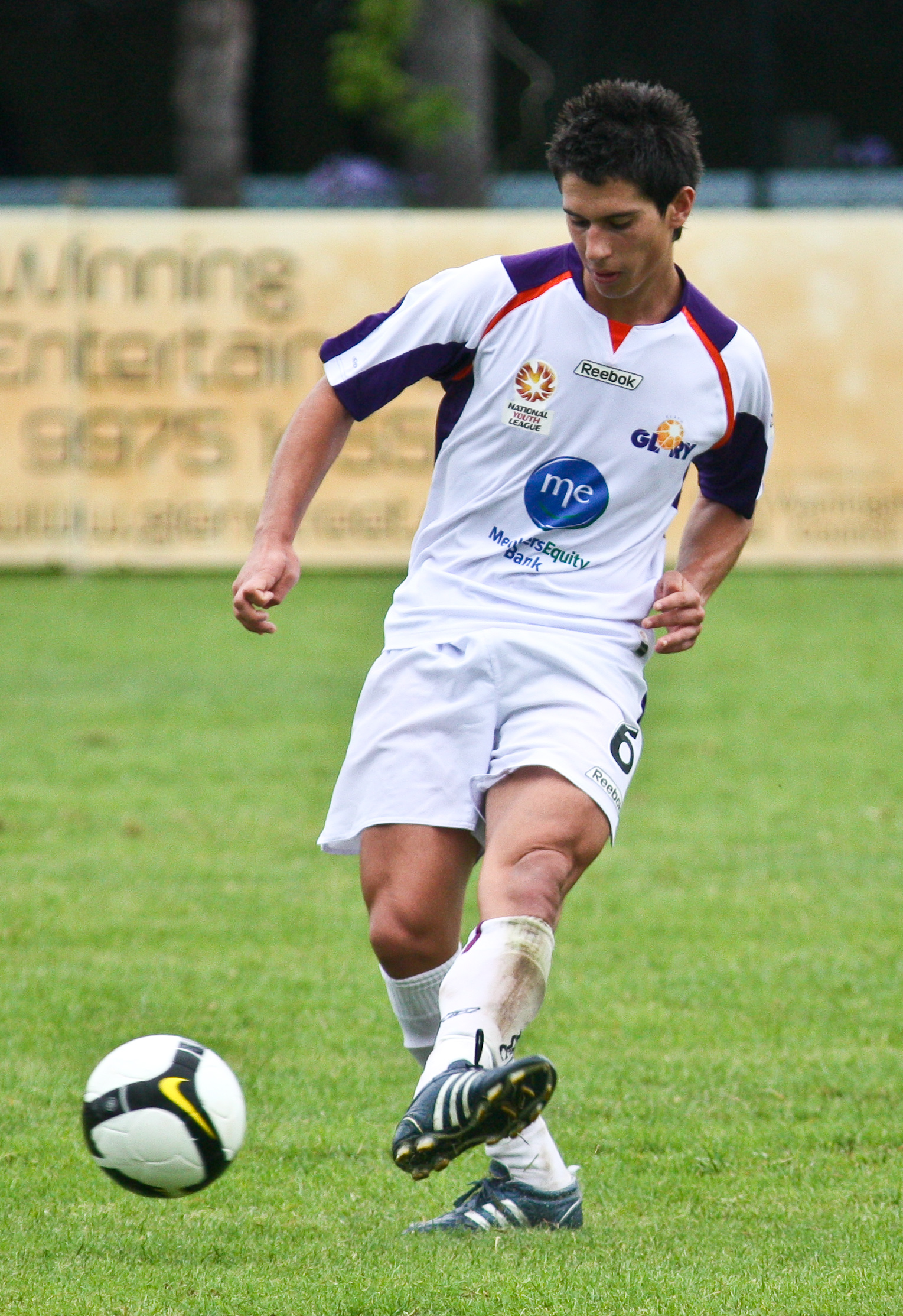 Dean Evans playing for the Perth Glory Youth team.